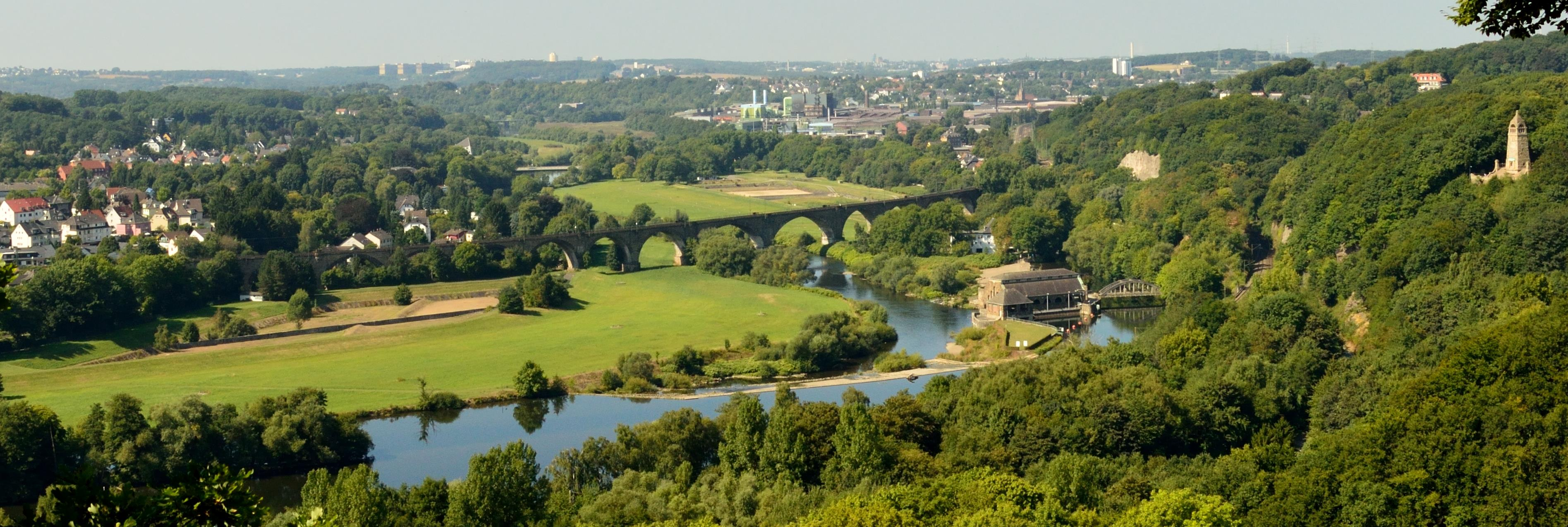 Witten, Ruhr Viaduct east side. In the background on the horizon (left hand side) there is the RUB=Ruhr University Bochum with the central auditorium maximum (audimax).